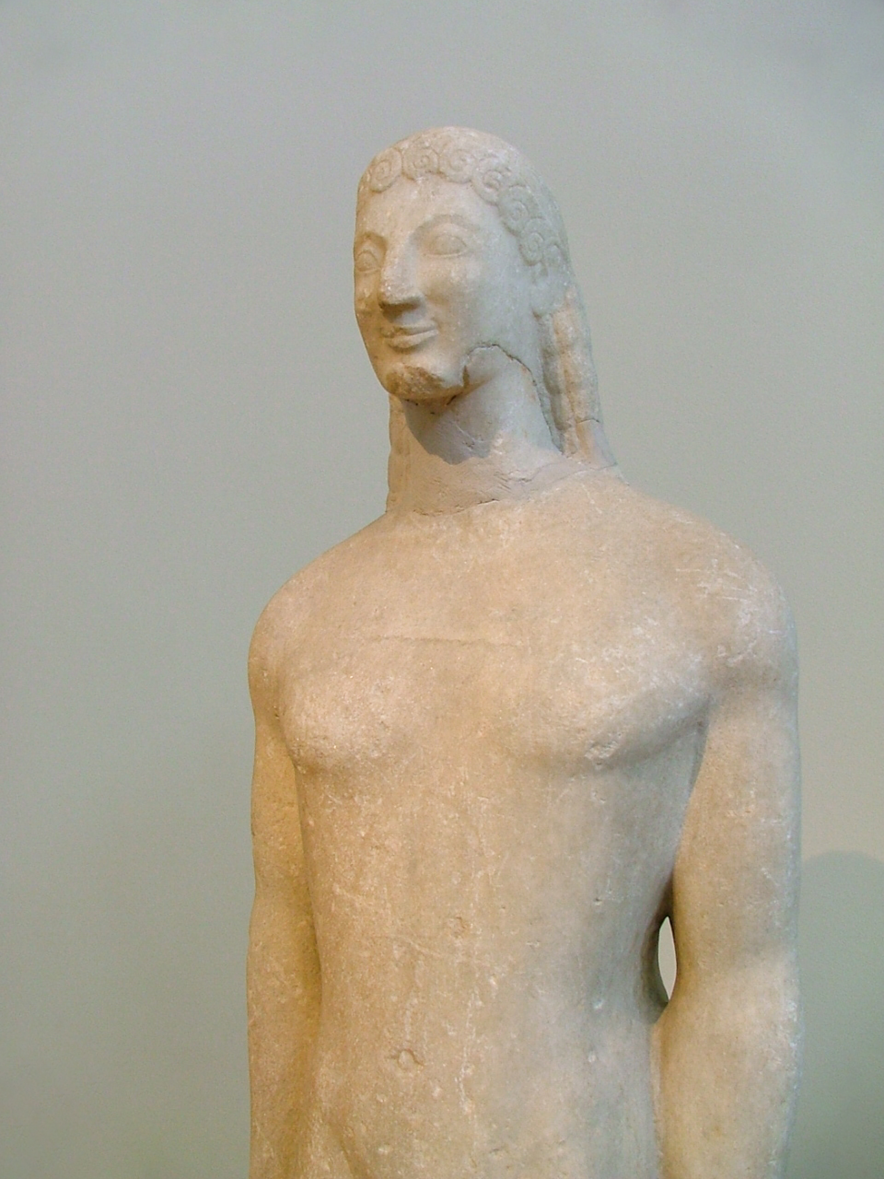 Statue of a kouros. Naxian marble. Found in Thera. Typical product of an island workshop. National Archaeological Museum of Athens